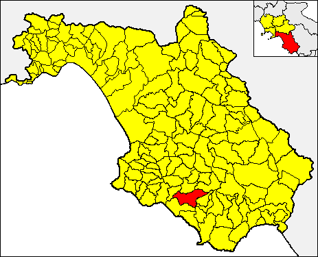 Locator map of the municipality of Ceraso (red) within the Province of Salerno